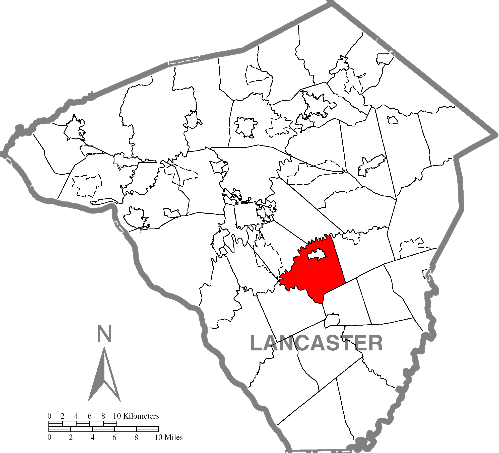 Highlighted Lancaster County map of Strasburg Township.